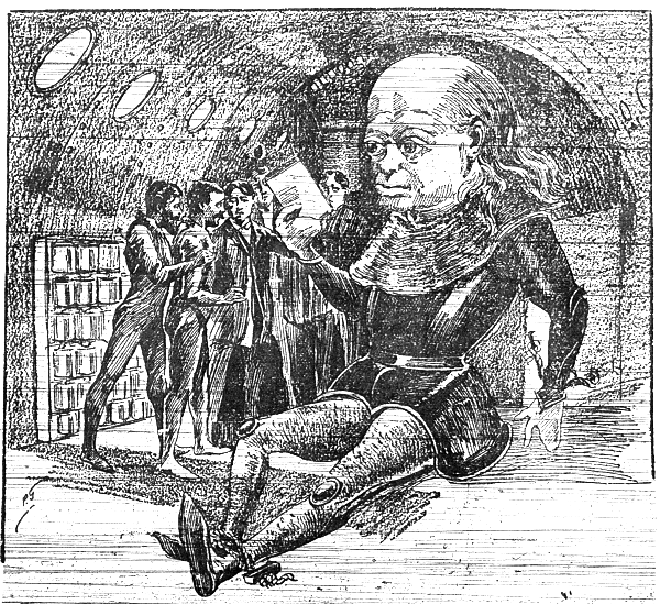 "Actually, it was a book that the prisoner produced, and then he proceeded to teach us, as well as he could, several words of his language."